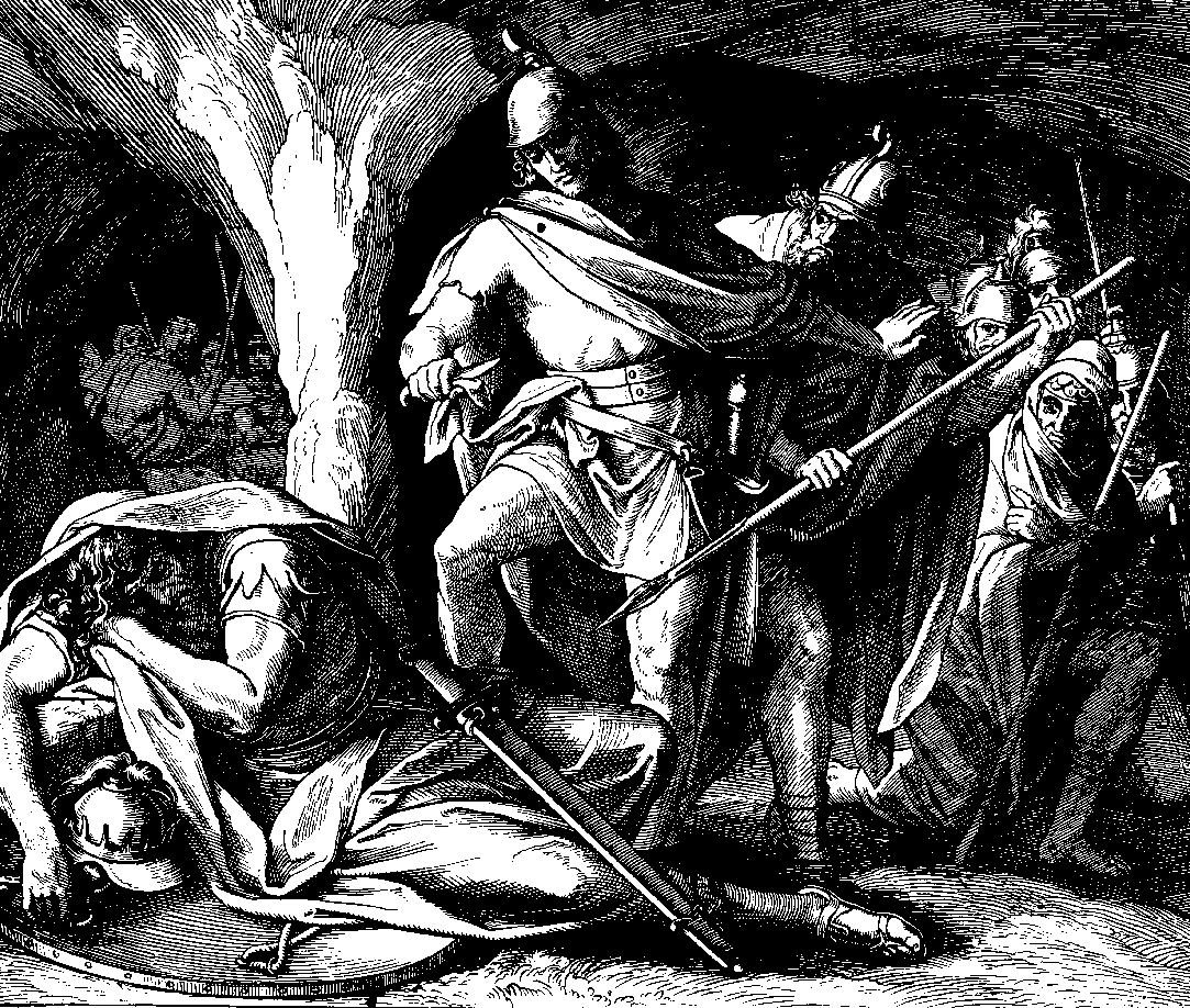 Woodcut for "Die Bibel in Bildern", 1860.